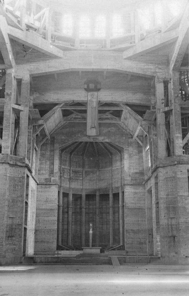 We see the inside of the St. Joseph's Oratory, located at 3800 Queen Mary Road in Montreal.